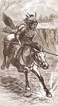 William Weatherford at the Holy Ground